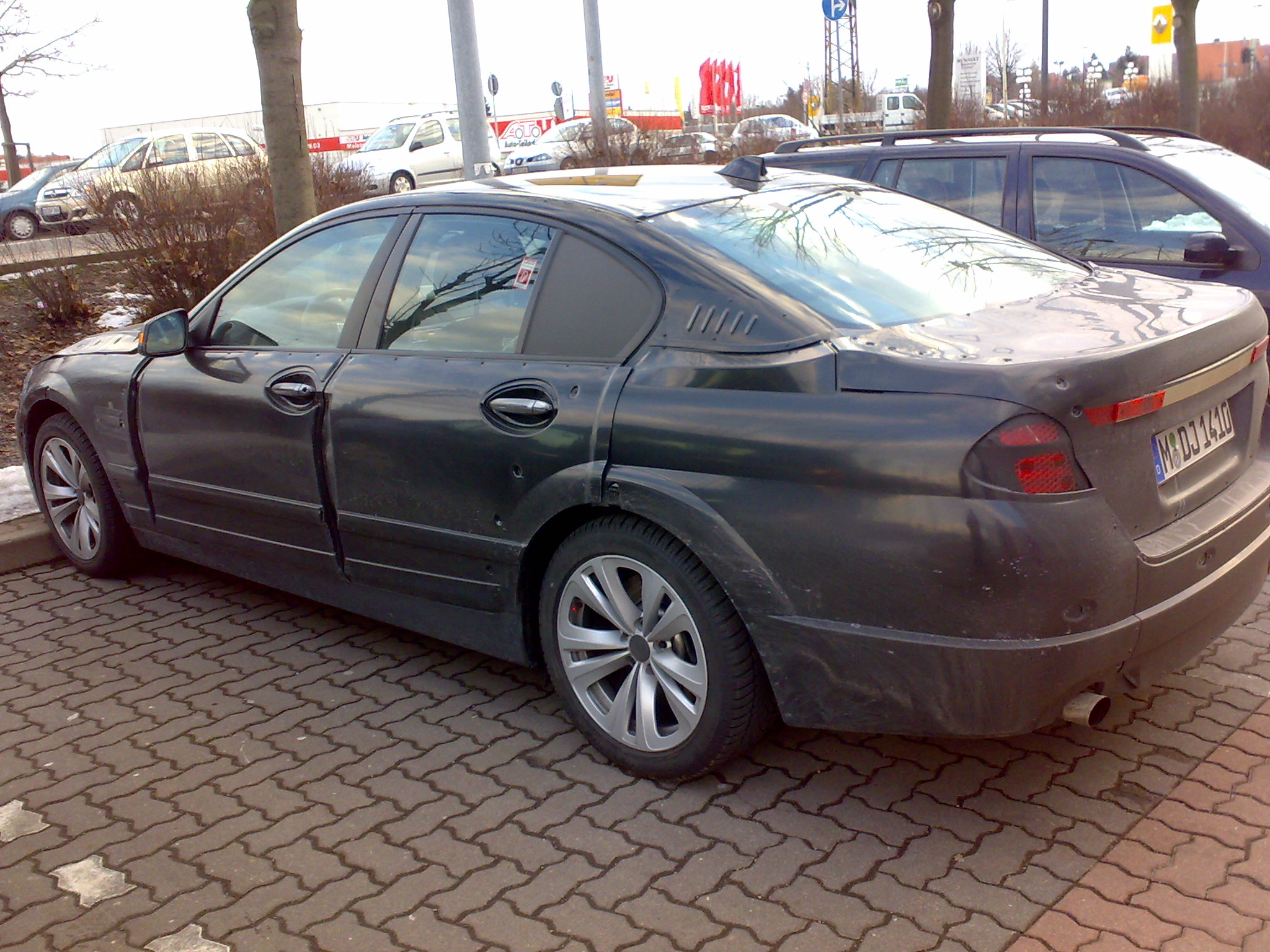 Development mule of a BMW series 7